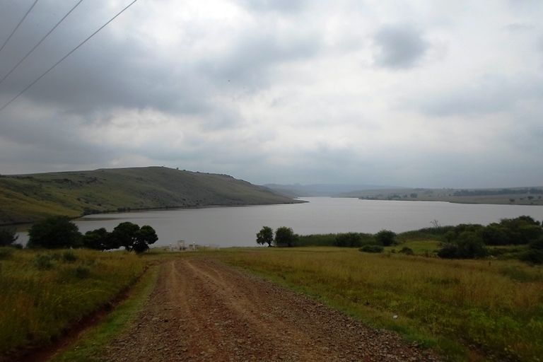 Sol Plaatjies Dam, Bethlehem, South Africa (2)